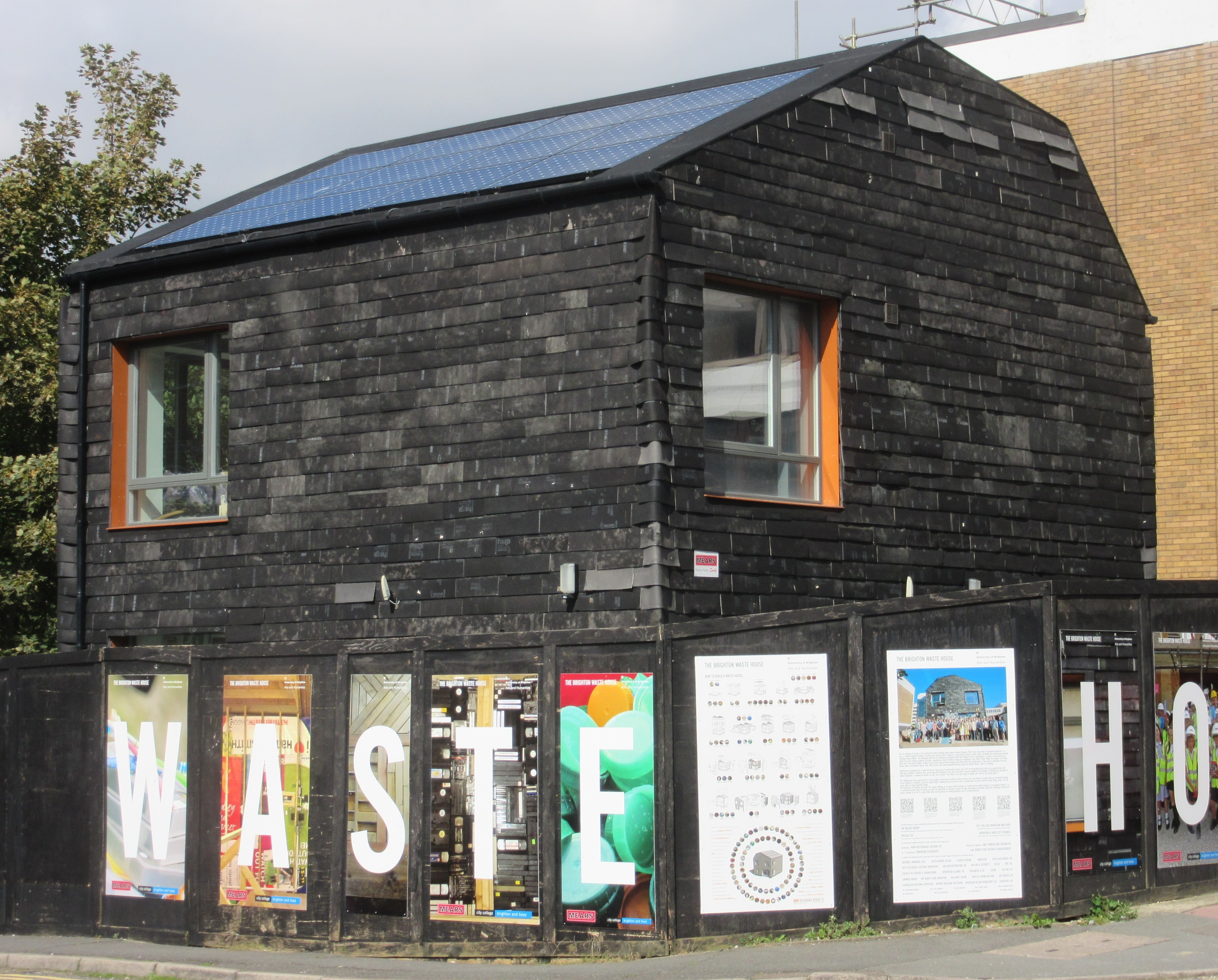 Waste House, junction of Grand Parade Mews and William Street, Brighton, City of Brighton and Hove, England. Built in 2013–14 behind the University of Brighton's Faculty of Arts building on Grand Parade. See the Wikipedia article Waste House for information about this low-energy sustainable building, which is built of construction and household waste.